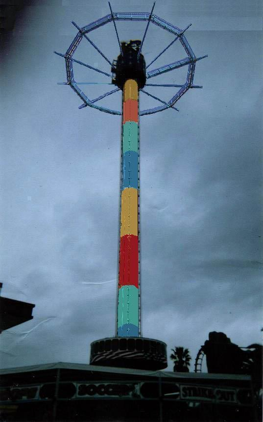 Sky Cabin Knott's Berry Farm, at 225 feet tall